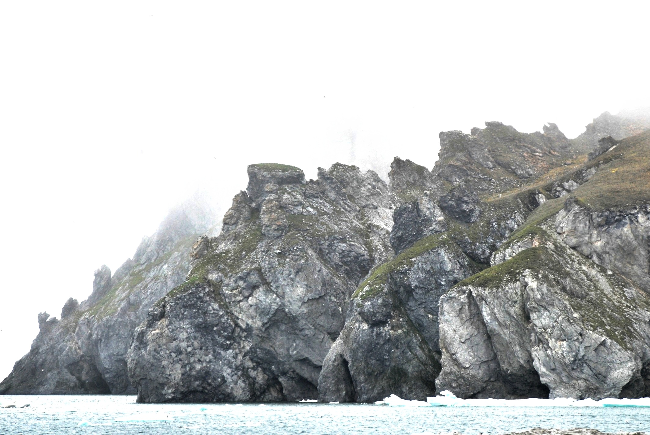 Cape Waring (southeast tip of Wrangel Island, Chukchi Sea, Russia; 71°14‘N, 177°27’W)